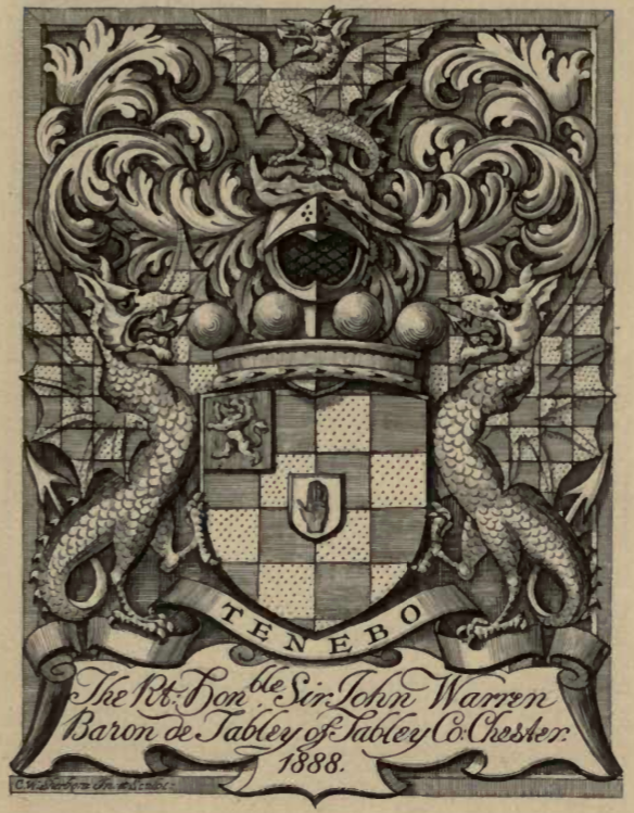 Bookplate of The Right Honourable John Byrne Leicester Warren, Lord de Tabley, Baronet (1835-1895), as engraved by Charles William Sherborn in 1888.